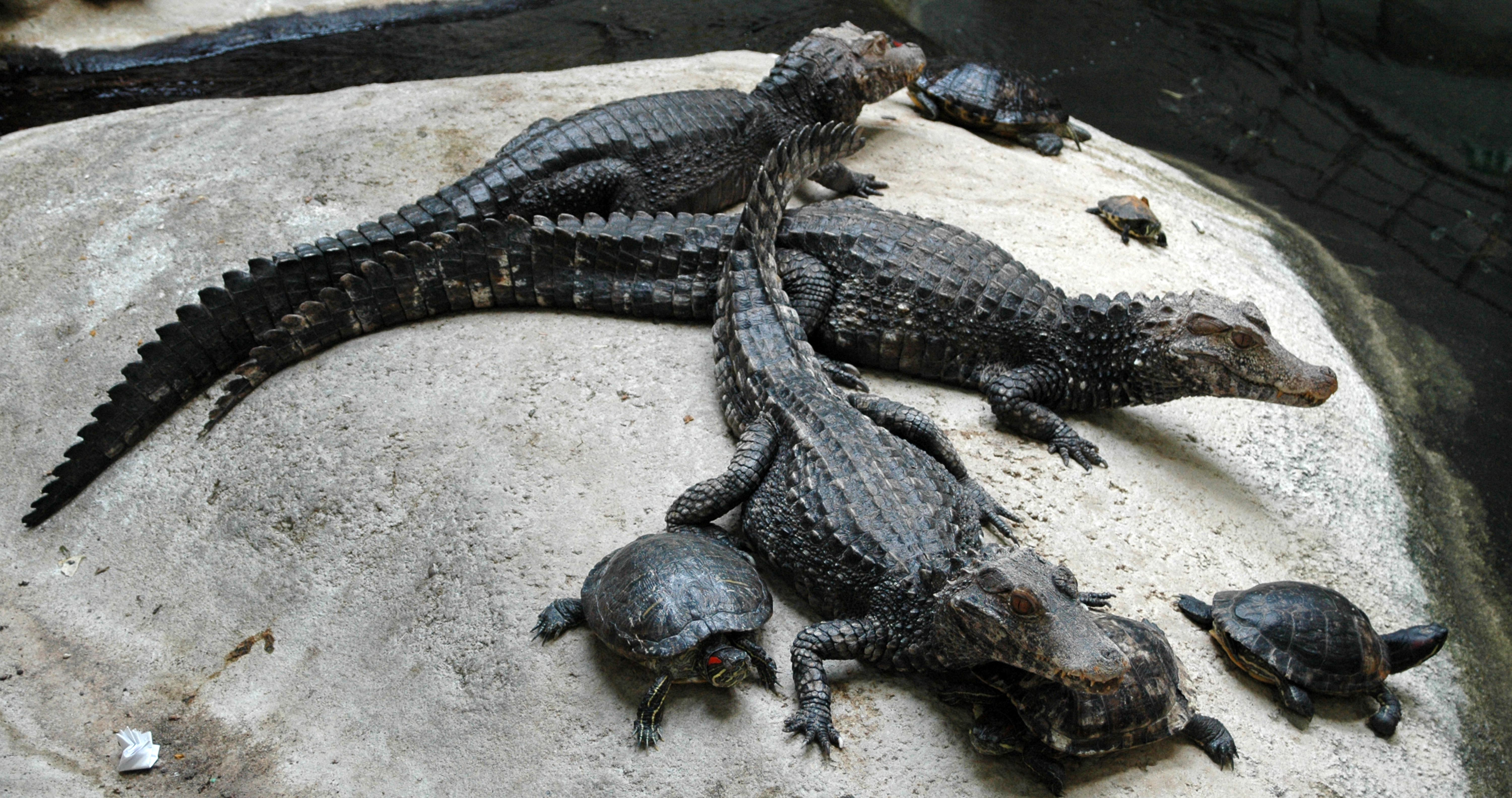 Cuvier's dwarf caiman (Paleosuchus palpebrosus) and Red-eared slider (Trachemys scripta elegans), lagoon in NaturBornholm